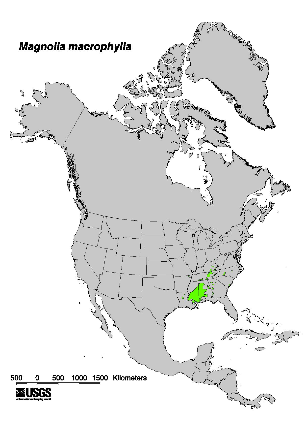 Magnolia macrophylla Range Map Digital representation of "Atlas of United States Trees" by Elbert L. Little, Jr. 1999. U.S. Geological Survey. [1]